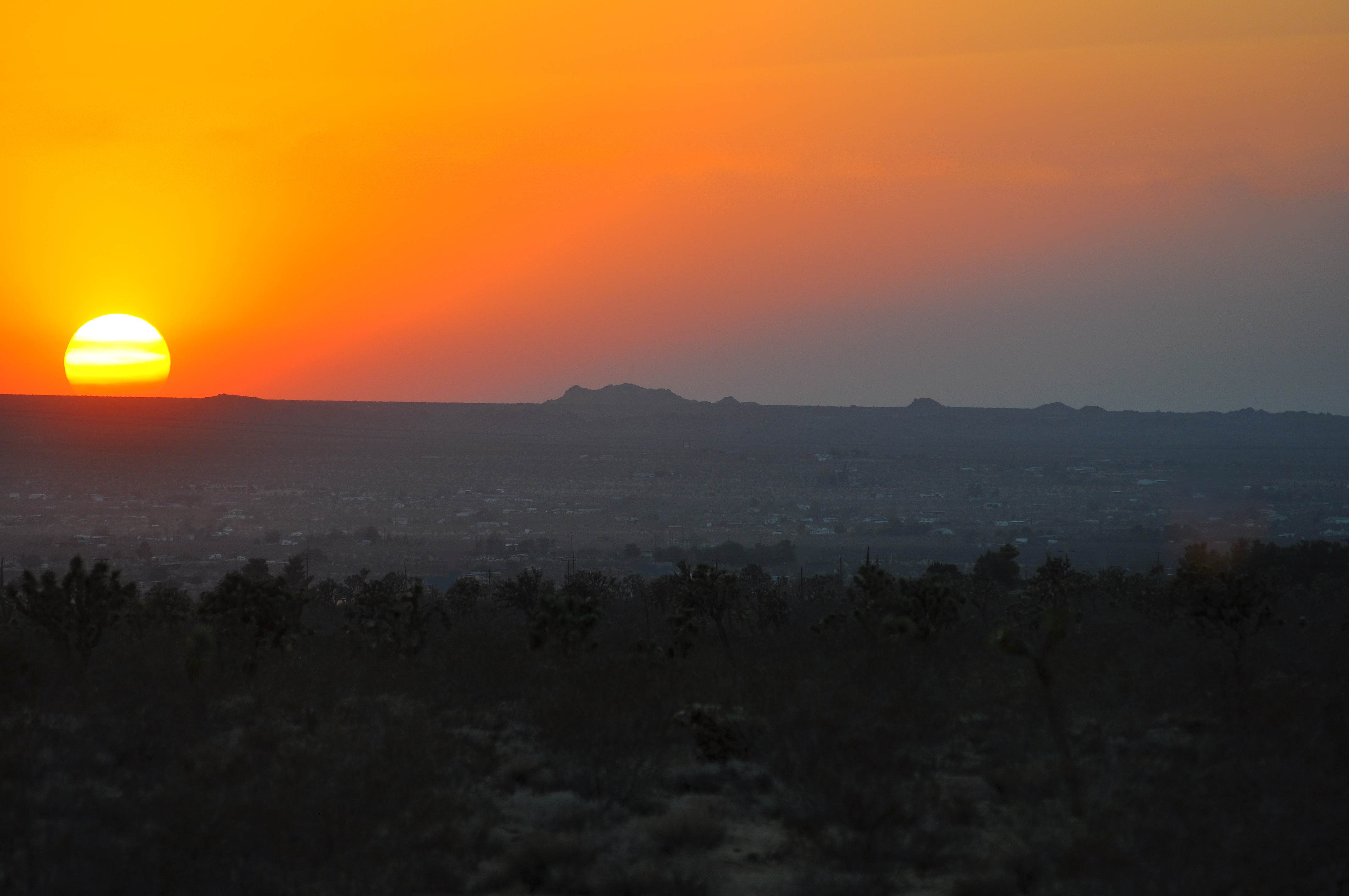 Striped colored Sun setting over the Mojave on a Hazy day